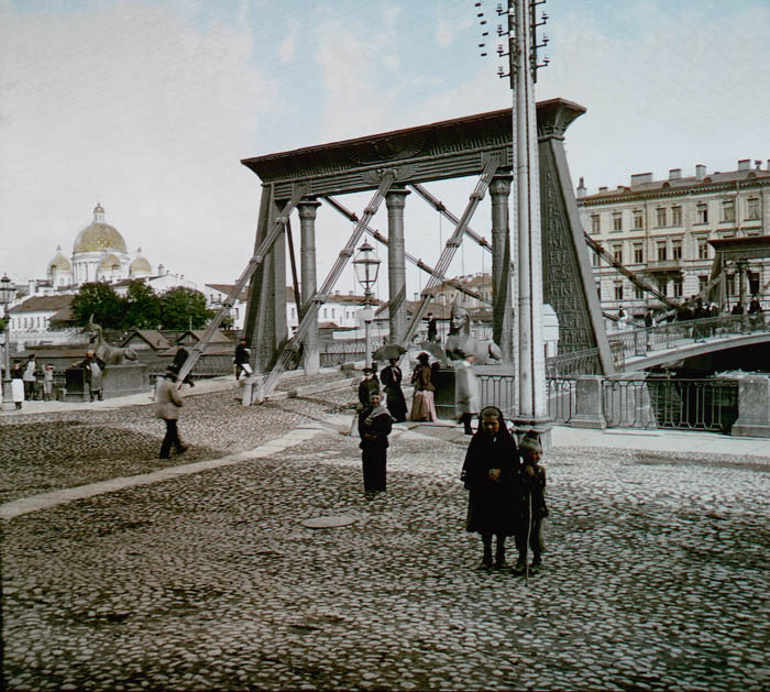 Egyptian Chain Bridge in St.-Petersburg